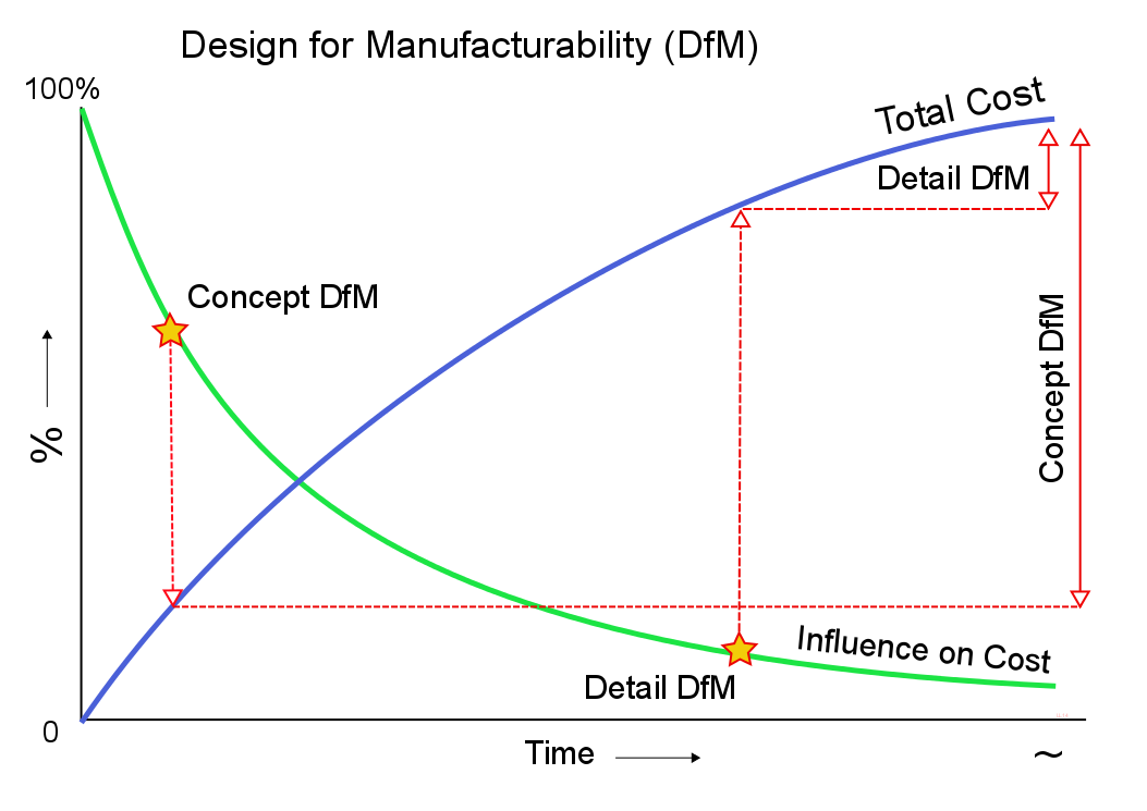 Visualization when to use the DfM approach in the design phase.